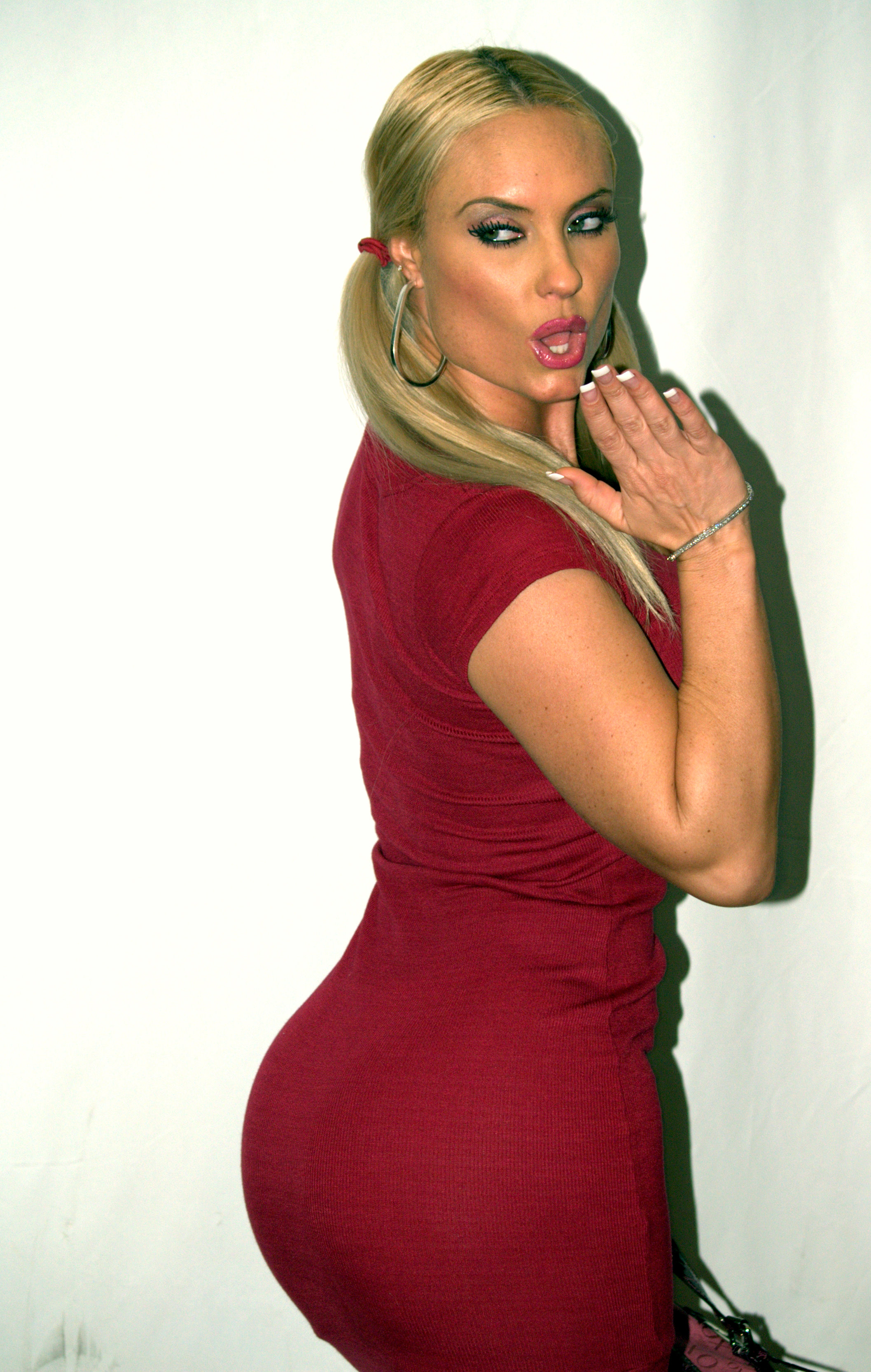 Coco at the 2009 Tribeca Film Festival for the premiere of Burning Down the House, a documentary about famous New York City rock and roll venue CBGB. Photographers blog post about Ice-T and his wife Coco at this event.